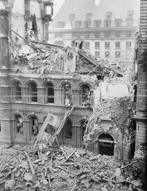 Bomb Damage in London 1939 - 1945 St Thomas's Hospital in Lambeth which was badly damaged in an air raid during September 1940.